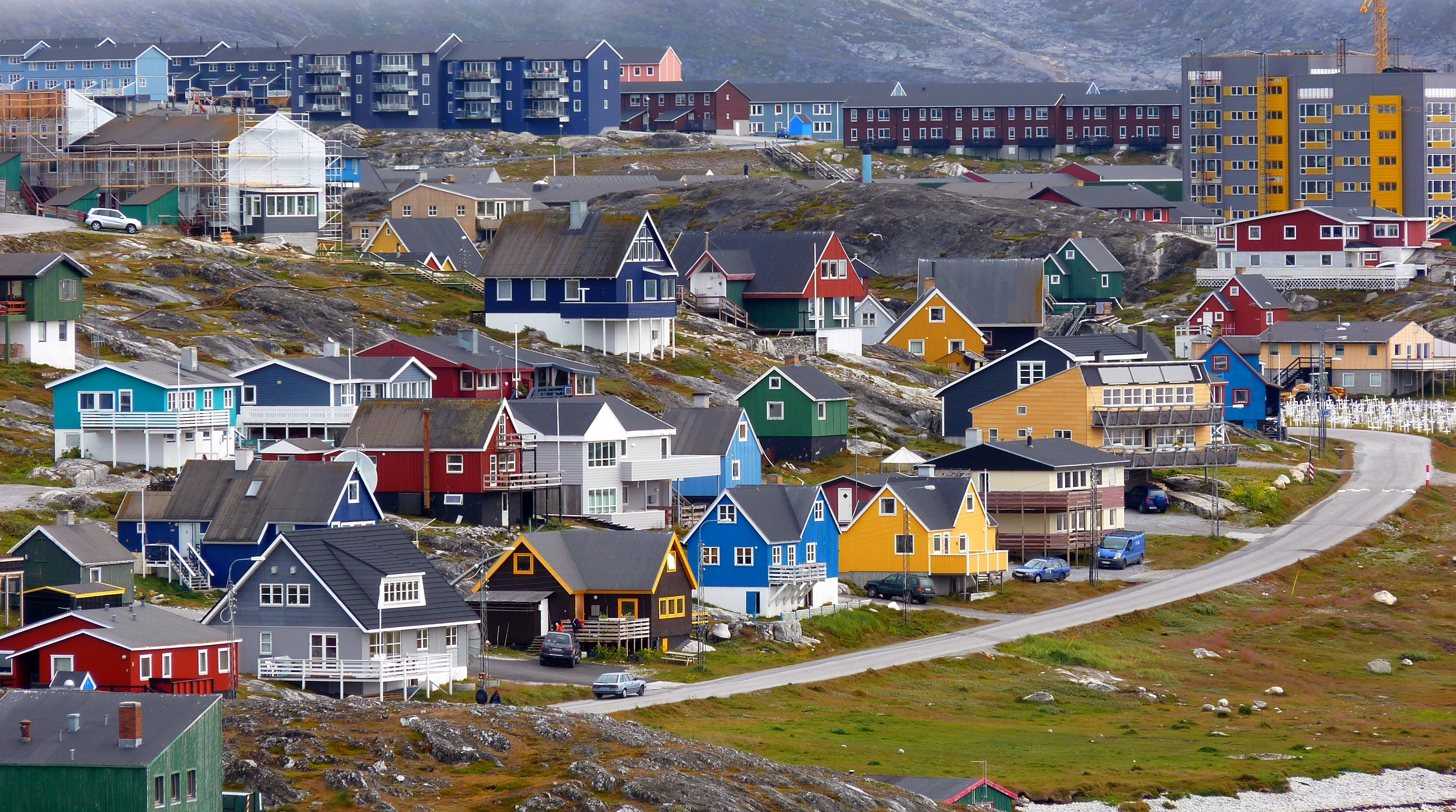 Nuuk - capital of Greenland